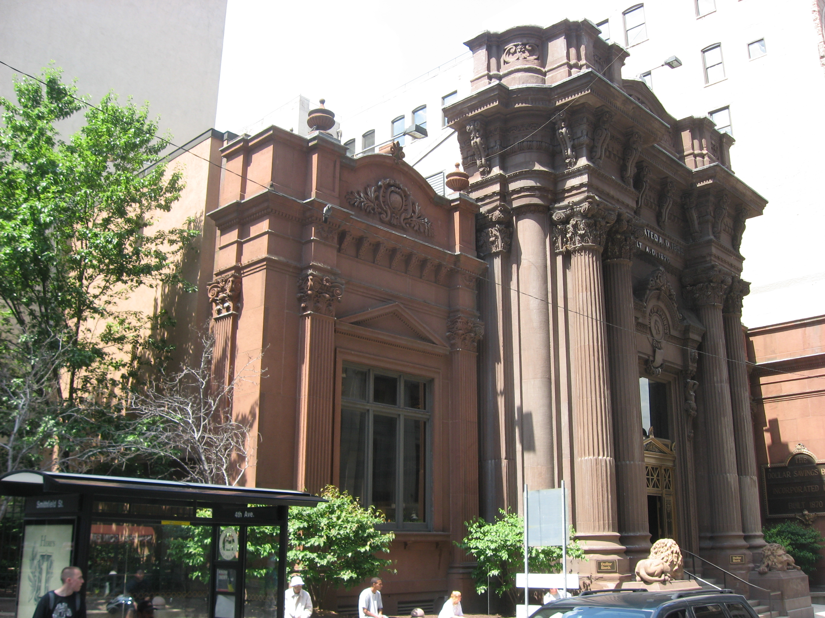 Eastern corner of the Dollar Savings Bank headquarters, located at the intersection of Fourth Avenue and Smithfield Street in downtown Pittsburgh, Pennsylvania, United States. Built in 1871, the building is listed on the National Register of Historic Places, and it is part of the Register-listed Fourth Avenue Historic District.